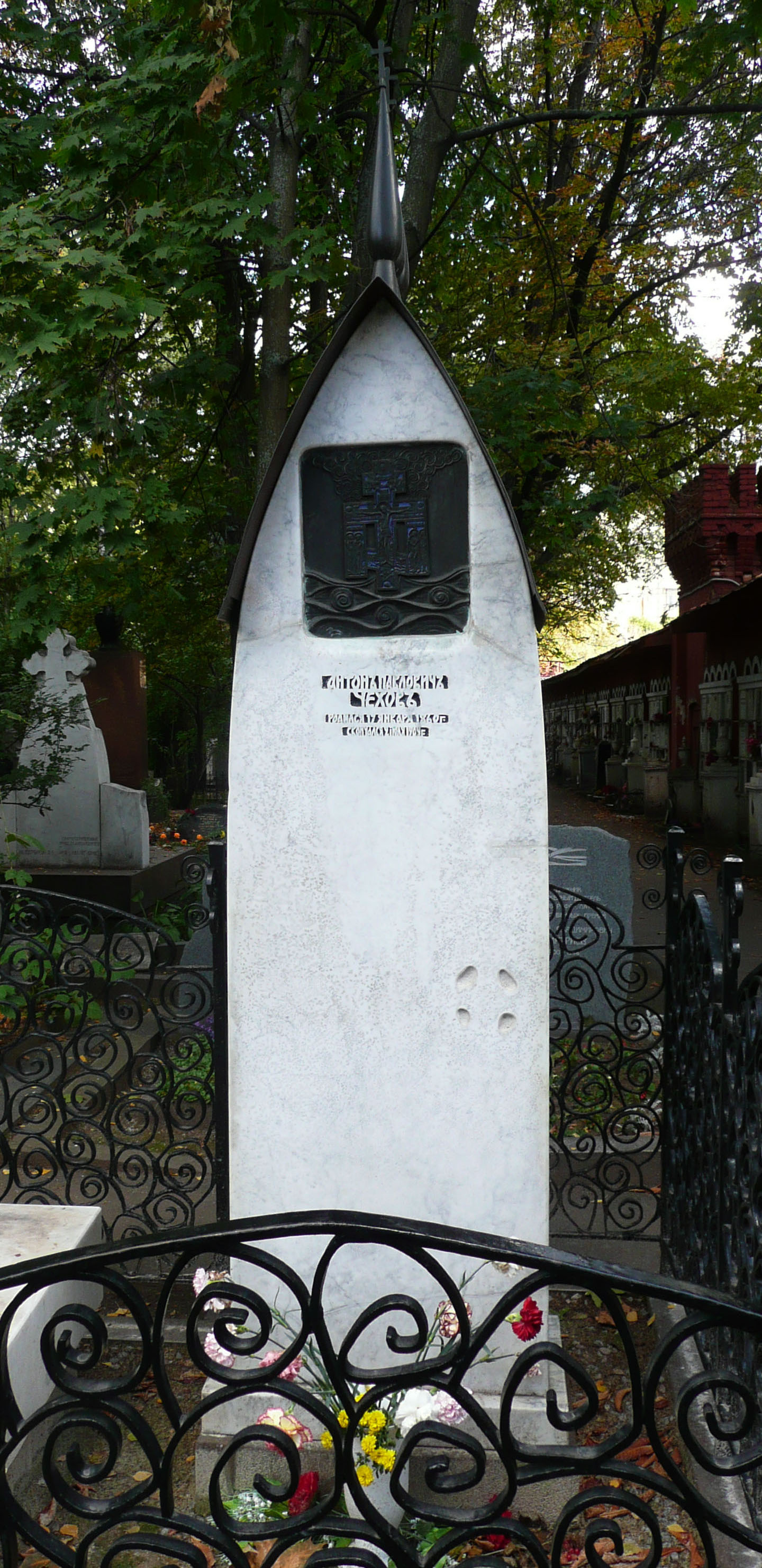 Chekhov's gravestone, Novodevichy Cemetery, Moscow (Originally buried inside the walls of the Novodevichy Convent)